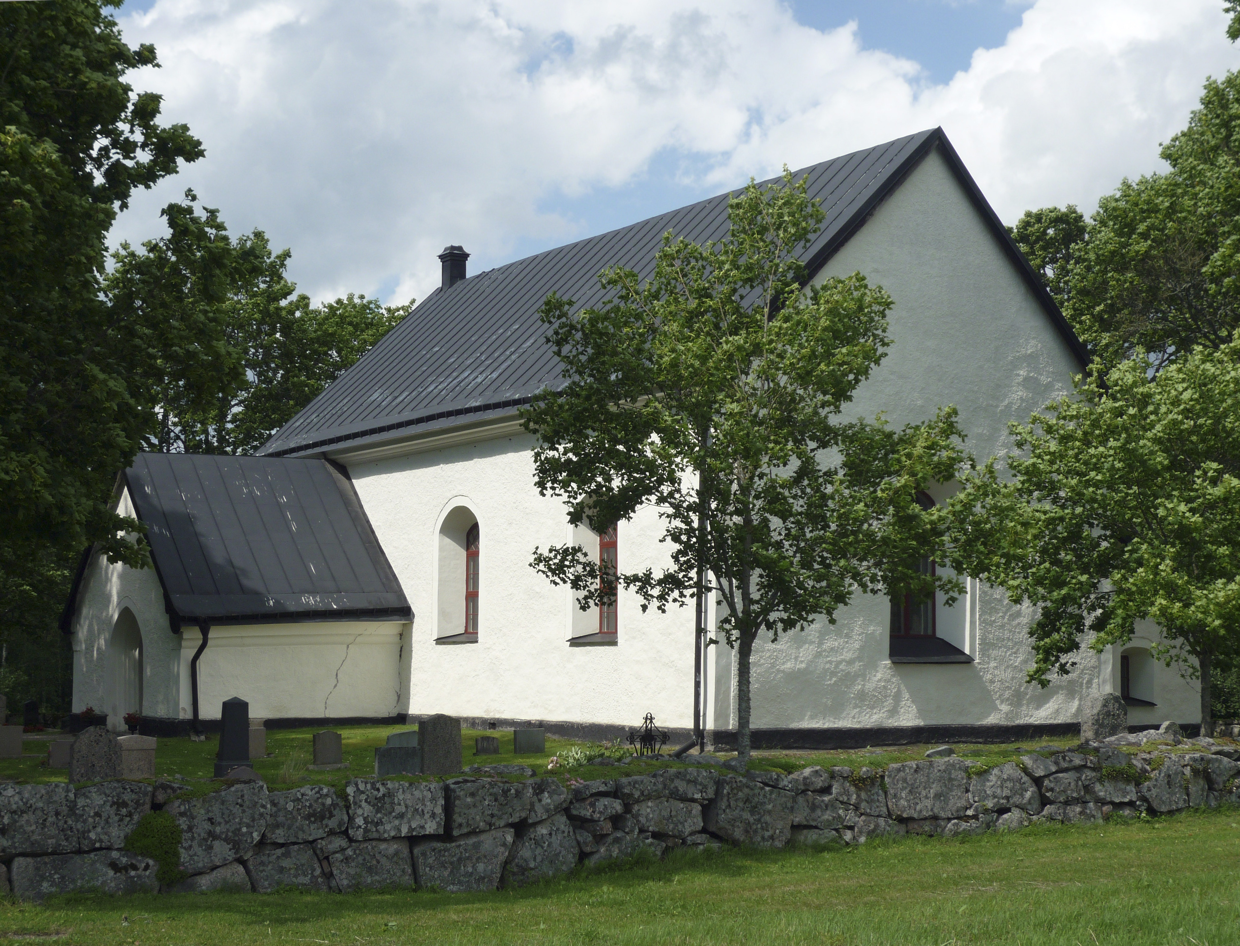 Åland church